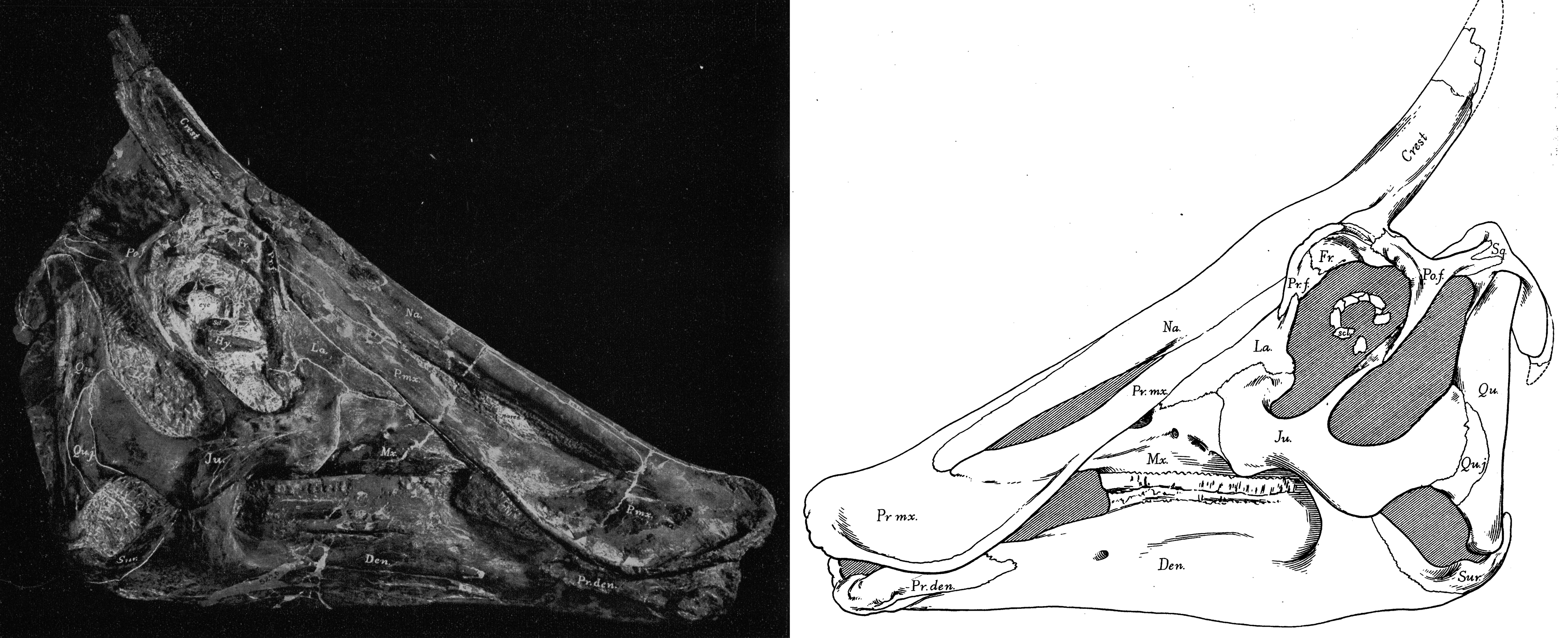 Holotype skull of Saurolophus osborni, AMNH 5220